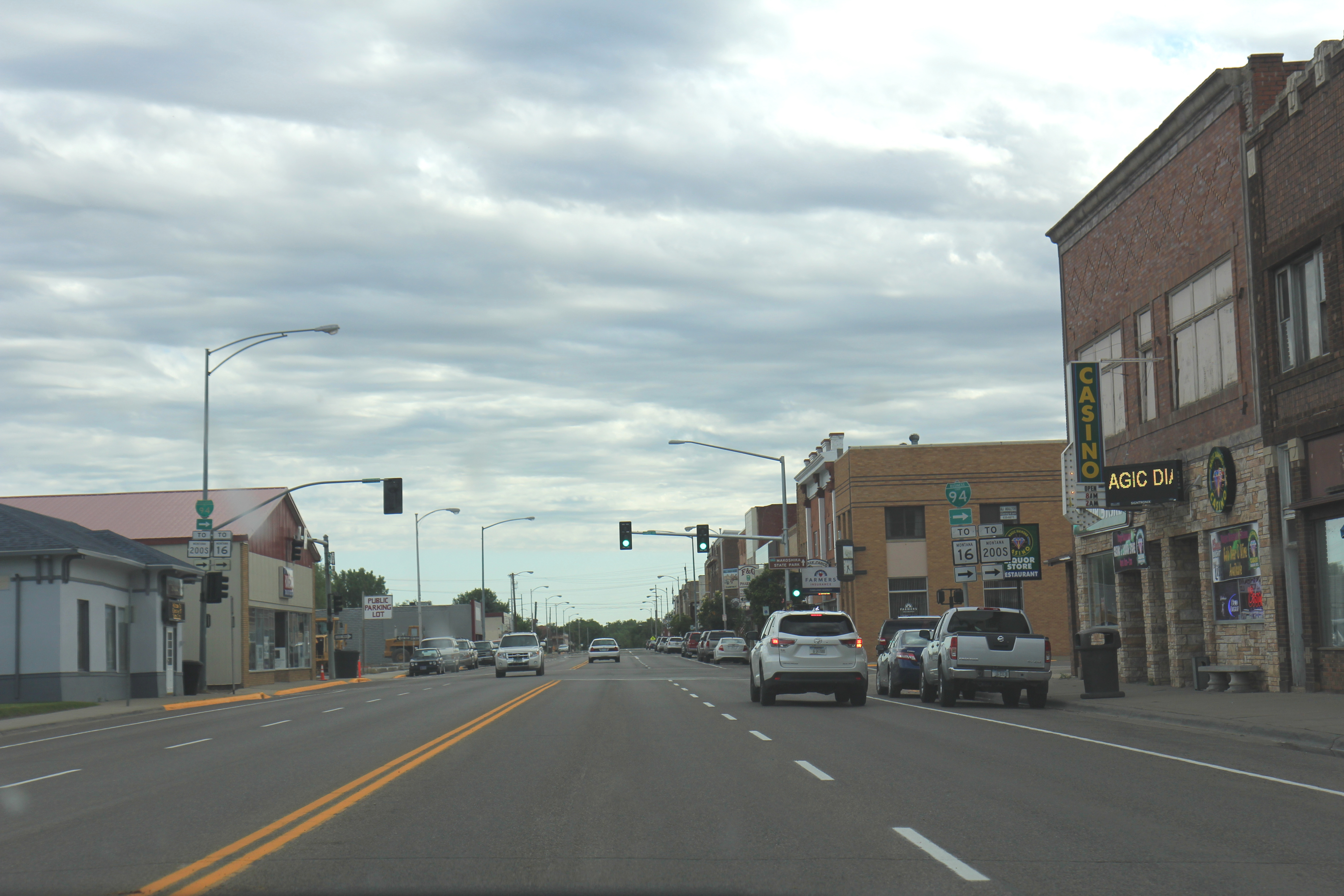 Downtown Glendive, Montana on Merrill Ave.